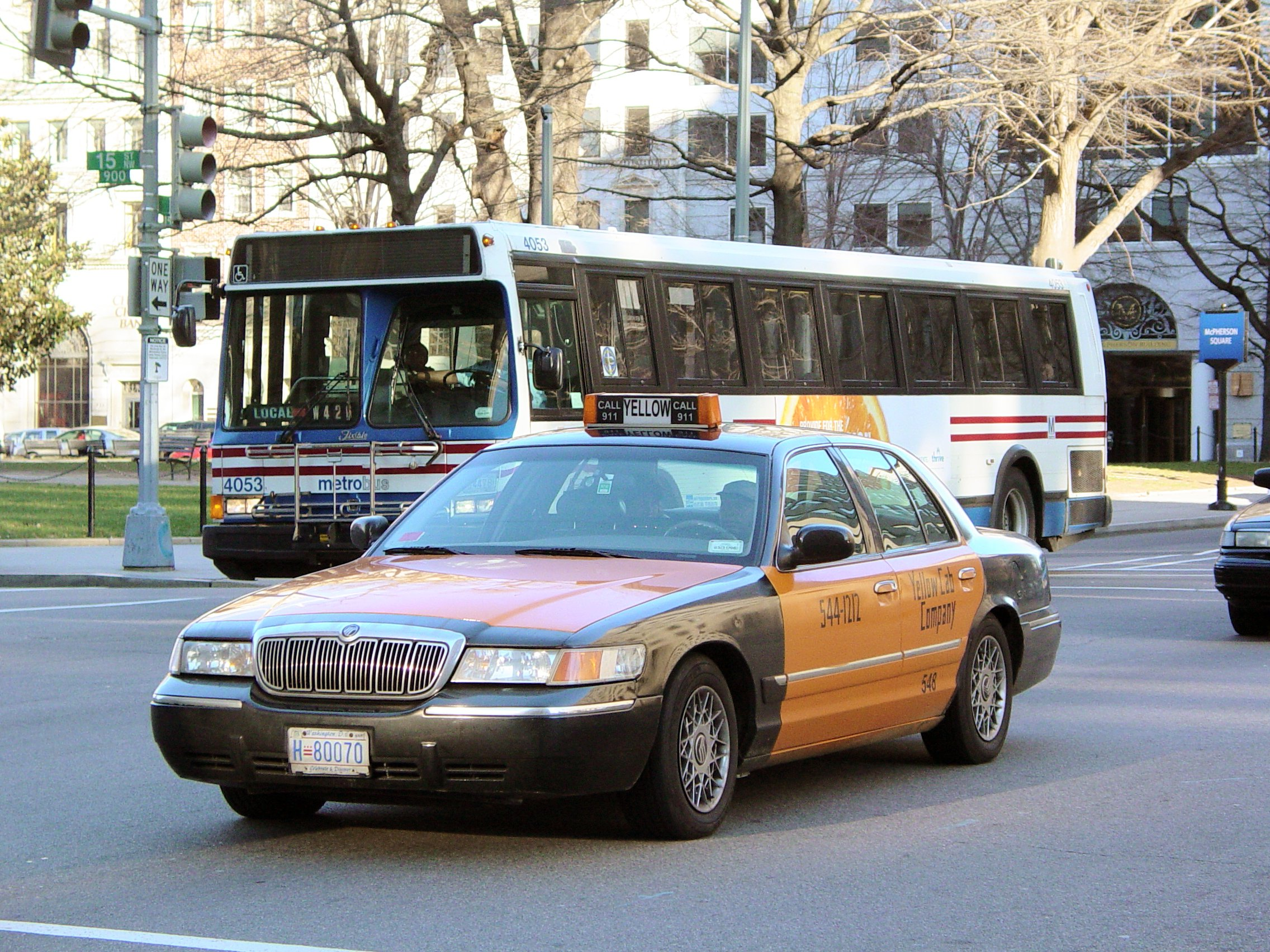 A taxicab and a Metrobus cross the intersection of 15th and I Streets NW in Washington DC. Photo by Ben Schumin on January 18, 2006.